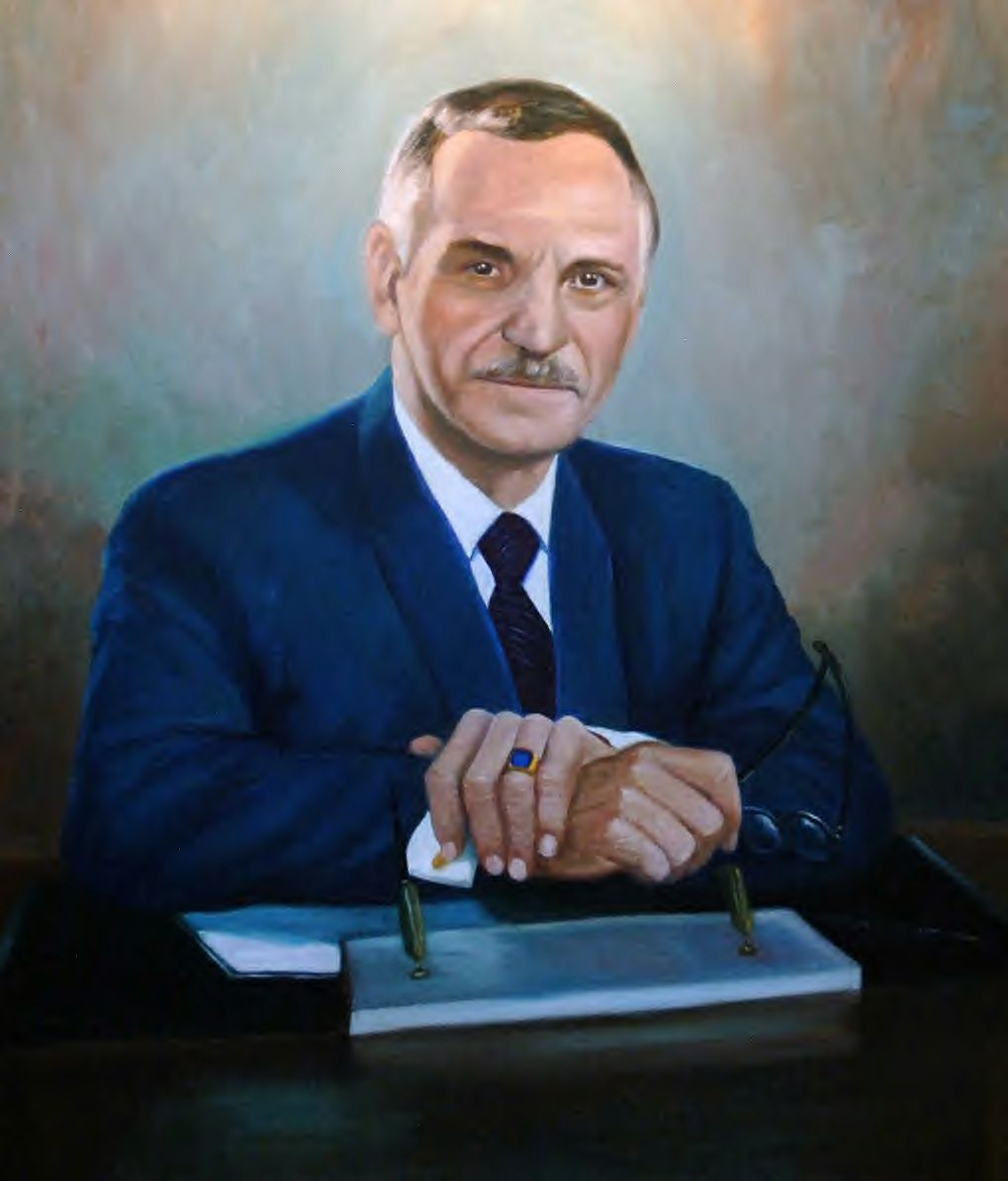 Painting of the Honorable Luis A. Ferré, former Secretary of State and Governor of Puerto Rico.